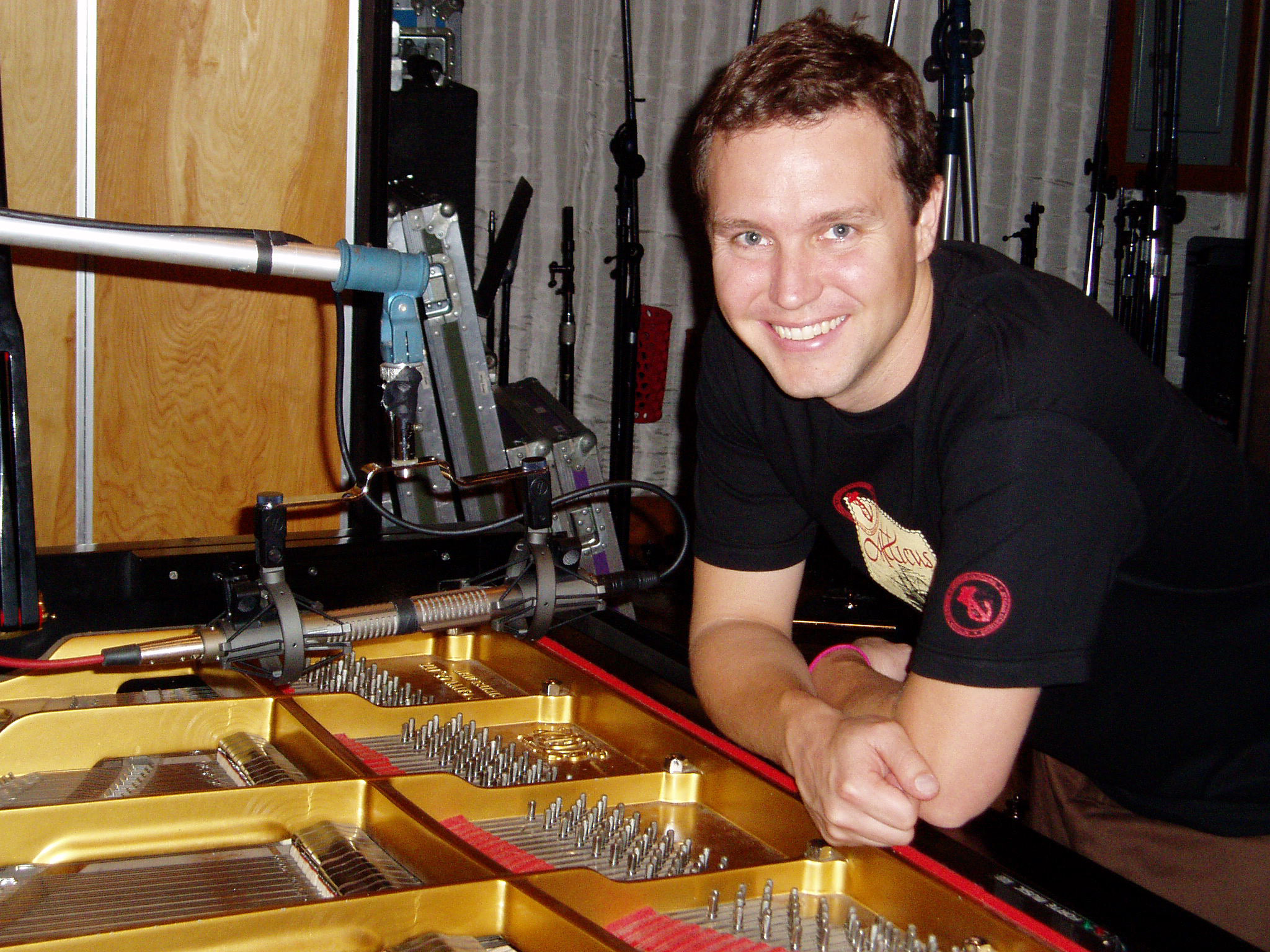 Musician Mark Hoppus poses beside a grand piano at Conway Recording Studios in Hollywood, California on September 11, 2003.